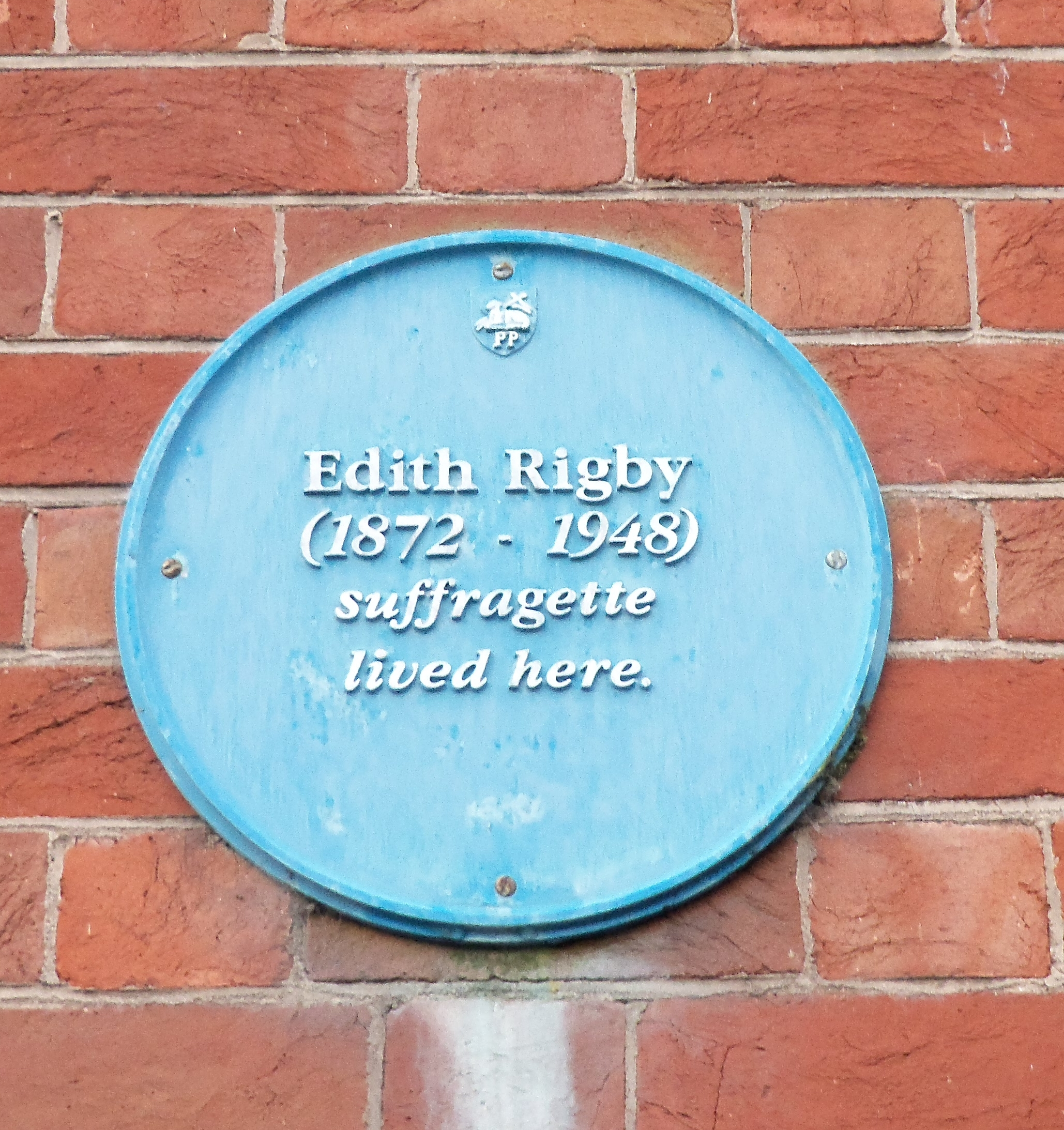 Edith Rigby (1872–1948) was an English suffragette. She founded a school in Preston called St. Peter's School, aimed at educating women and girls. Later she became a prominent activist, and was incarcerated seven times and committed several acts of arson. She was a contemporary of Christabel and Sylvia Pankhurst.